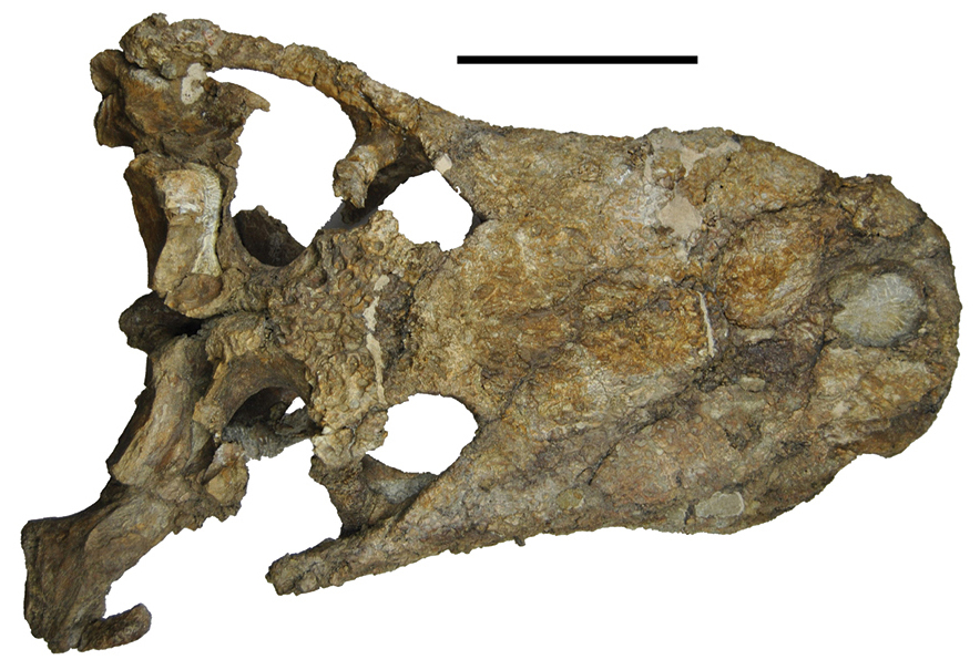 Allodaposuchus subjuniperus (Crocodyliformes, Eusuchia), skull (holotype, MPZ 2012/288) in dorsal view (lower Tremp Formation, Beranuy near Arén, Huesca)